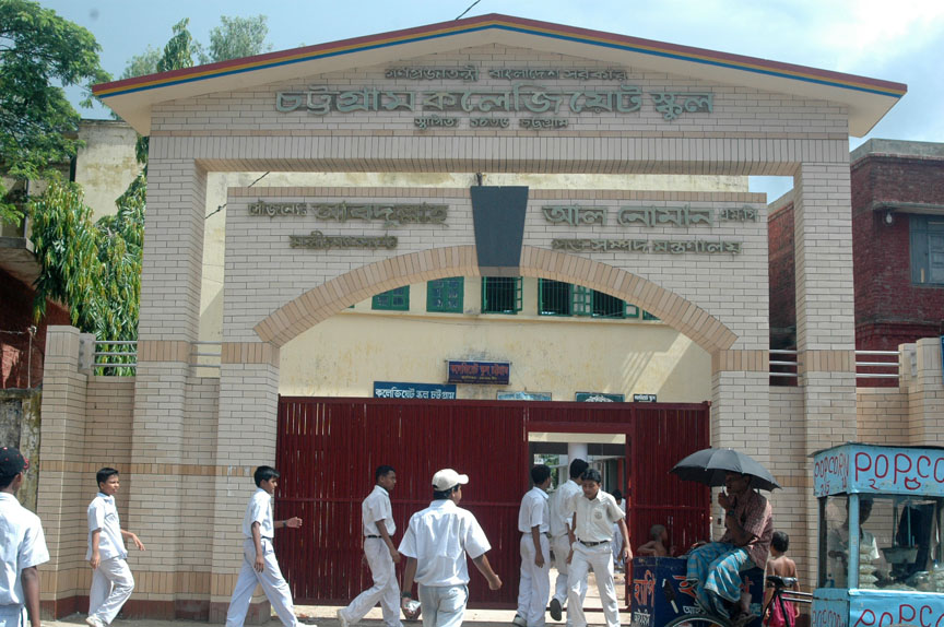 The Chittagong Collegiate School is a notable secondary school in Chittagong.